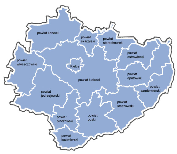 Map of the powiaty (counties) of Świętokrzyskie Voivodeship